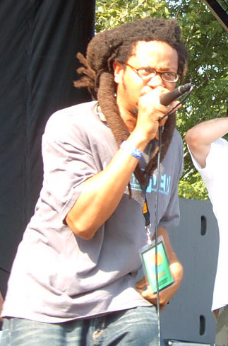 Mr. Lif live at Pitchfork Music Festival, July 30, 2007. Cropped from original image.